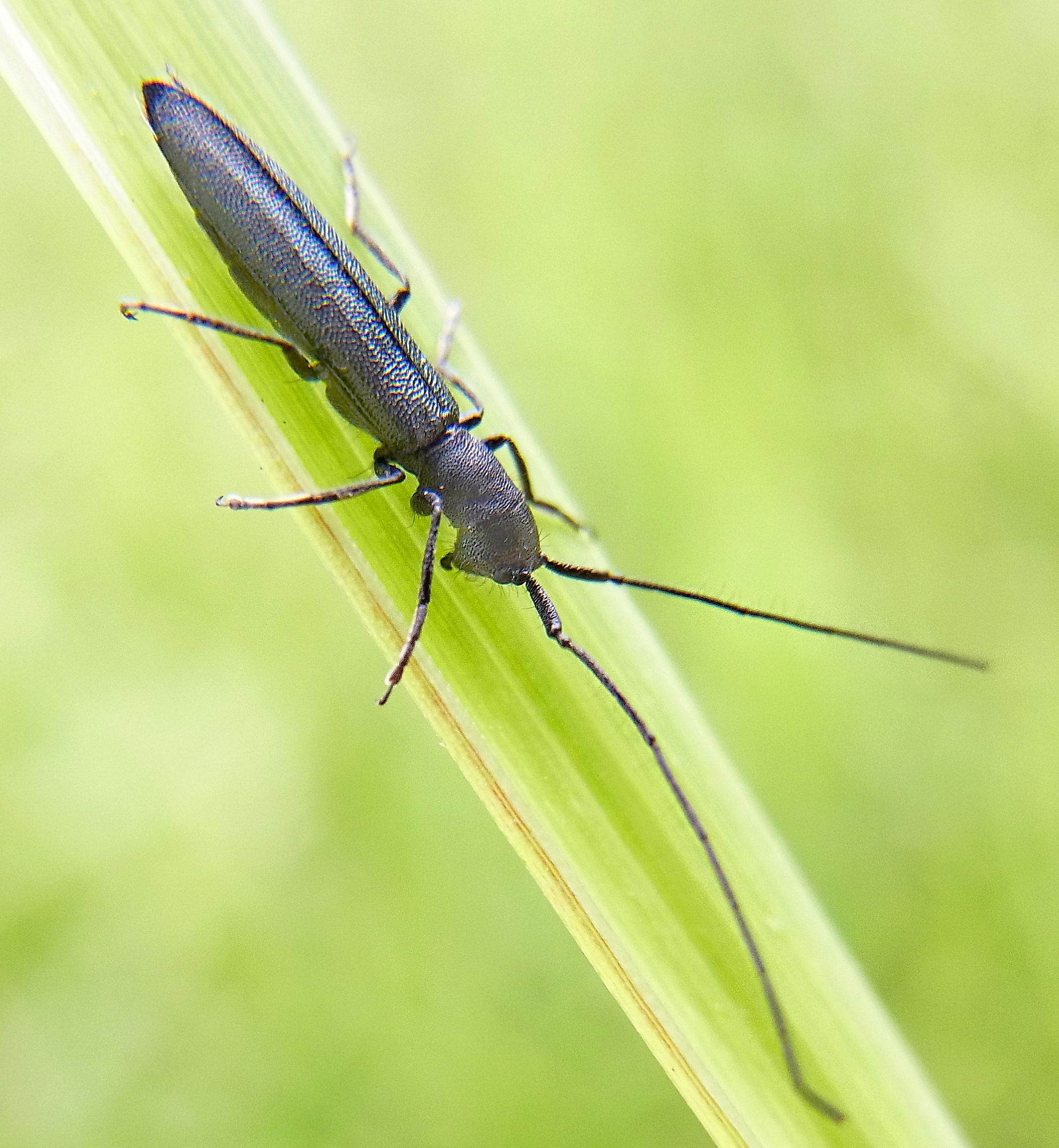 Theophilea subcylindricollis from Southern Hungary south of village Mórahalom beside lake Madarásztó at different plants